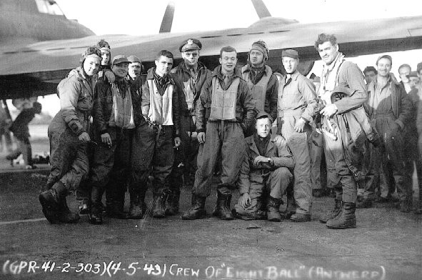 Clark Gable in the US Air Force (on the right)